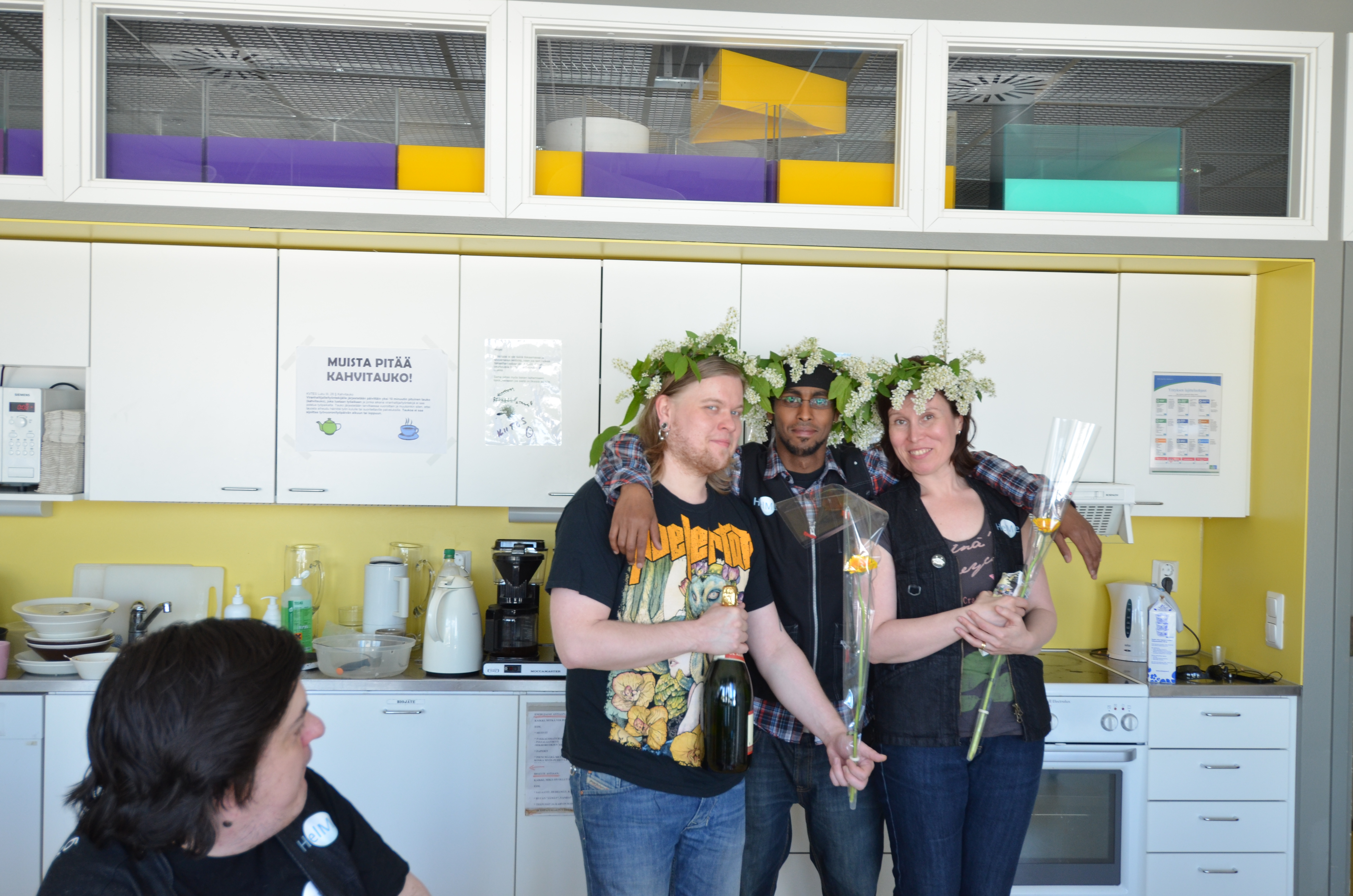 A Somali man and Finnish friends celebrating at a party in Helsinki, Finland.